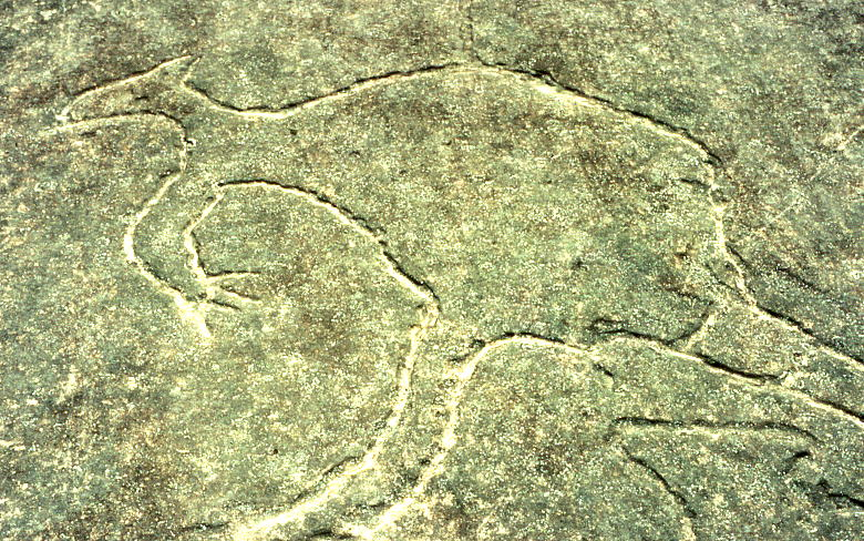 Aboriginal rock carvings, Terrey Hills, New South Wales, Sydney, photo by Sardaka 08:41, 13 November 2007 (UTC)